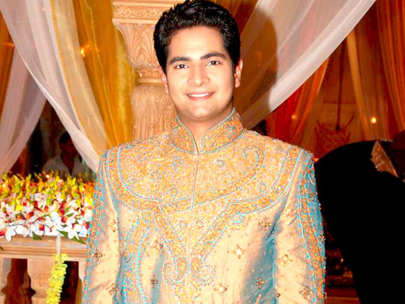 Karan Mehra